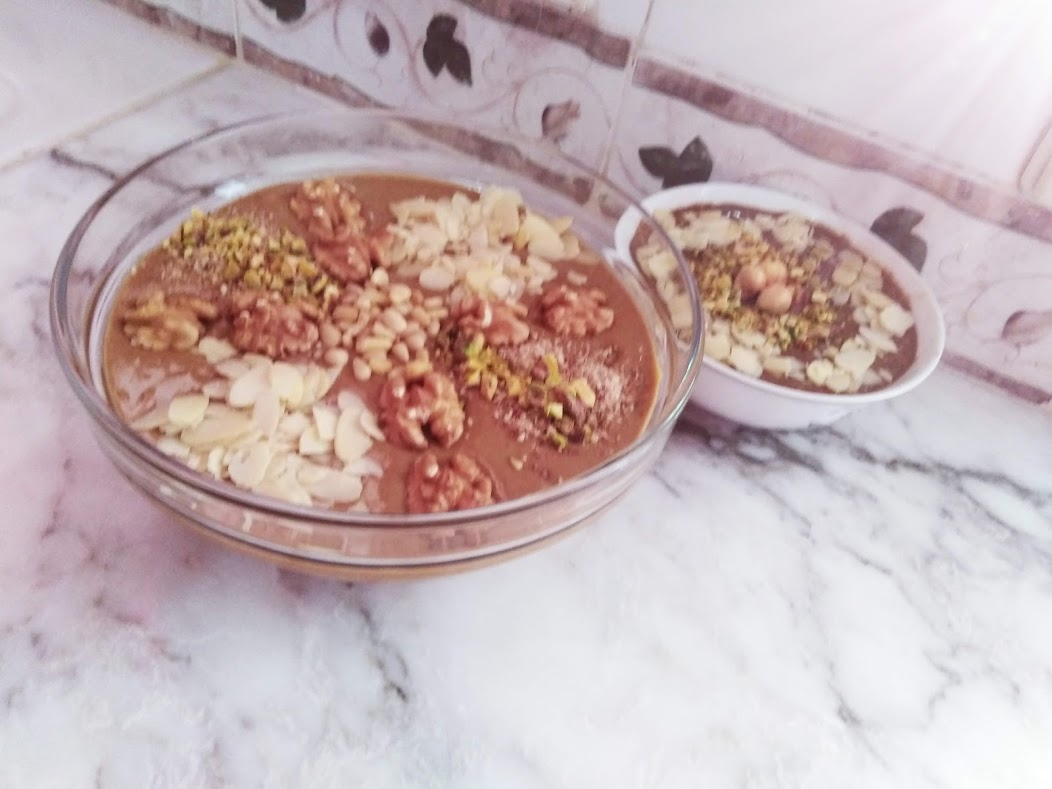 Bsisa is a north african dish made of grilled wheat